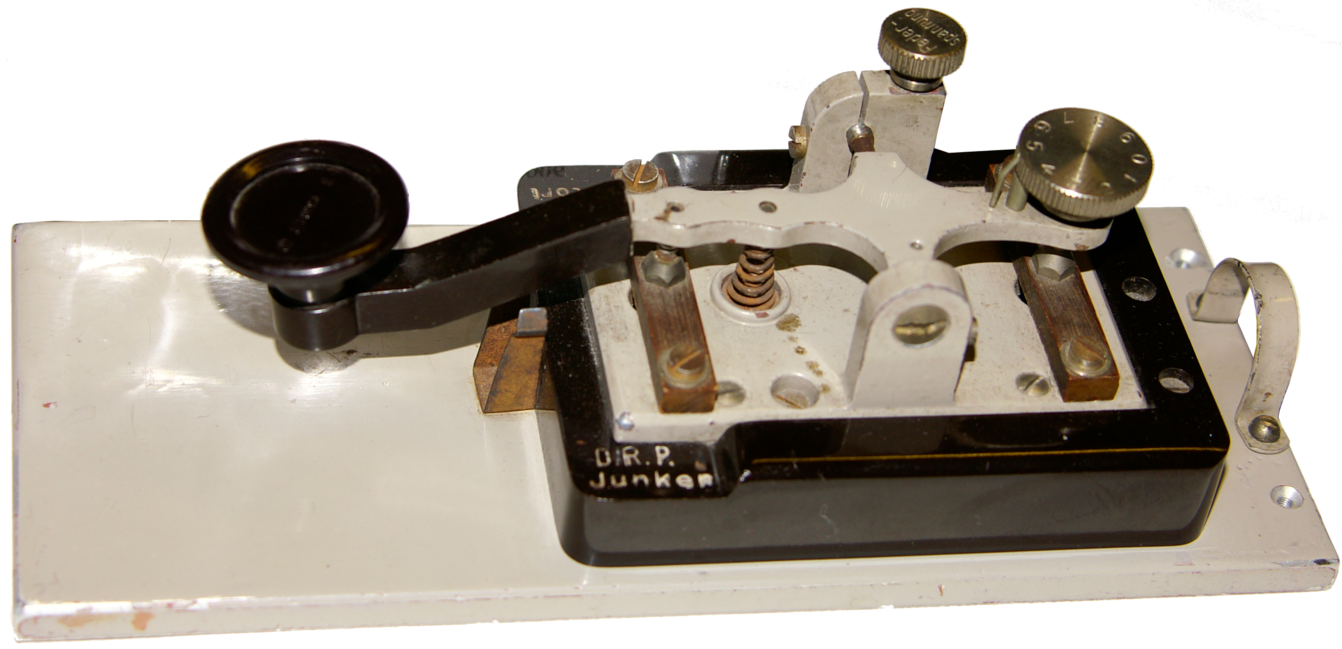 This is the morse push button of the german cruiser "Schwerer Kreuzer Prinz Eugen" in World War II given as present by the captain to his radio operator